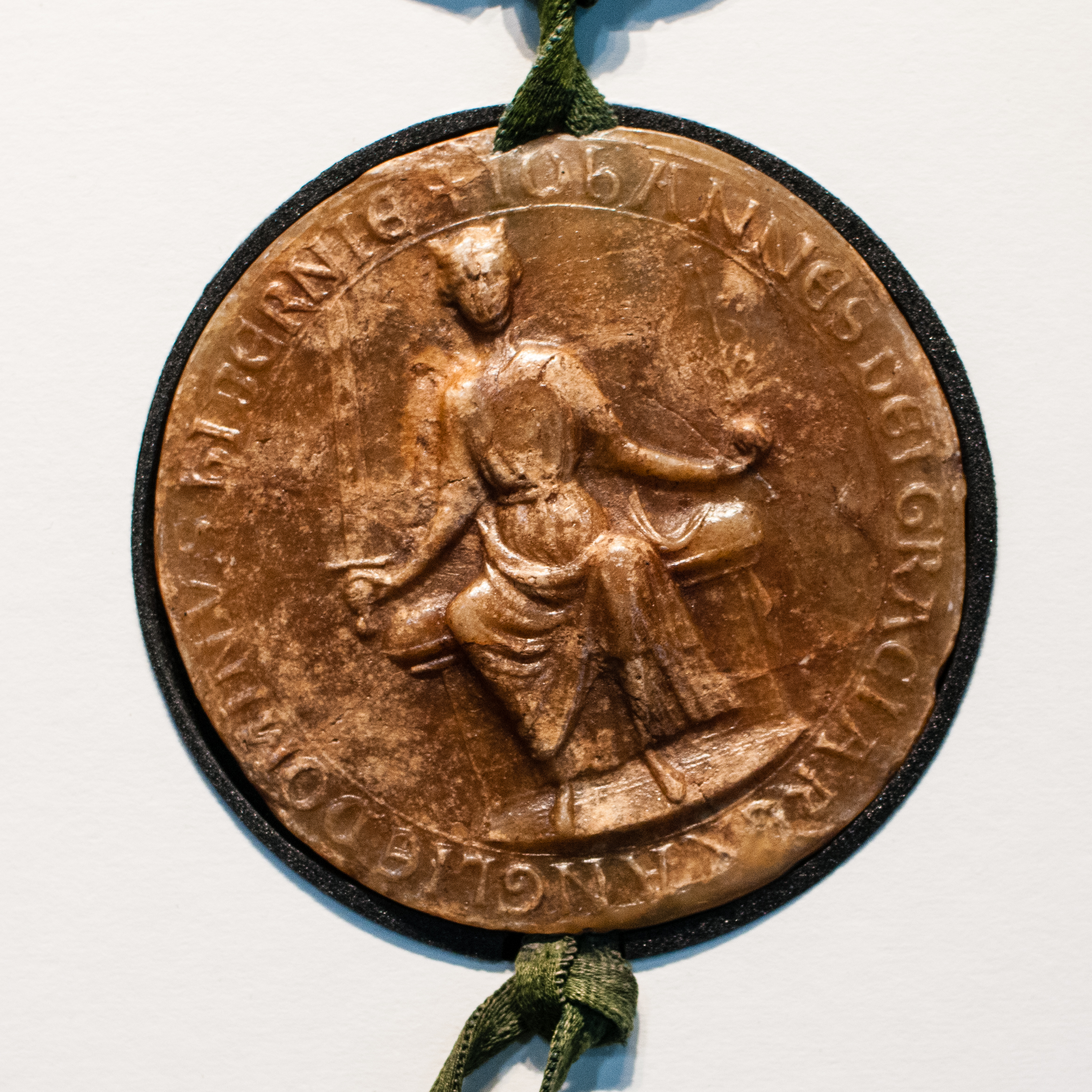 Great Seal of England: "IOHANNES DEI GRACIA REX ANGLIE ET DOMINVS HIBERNIE"